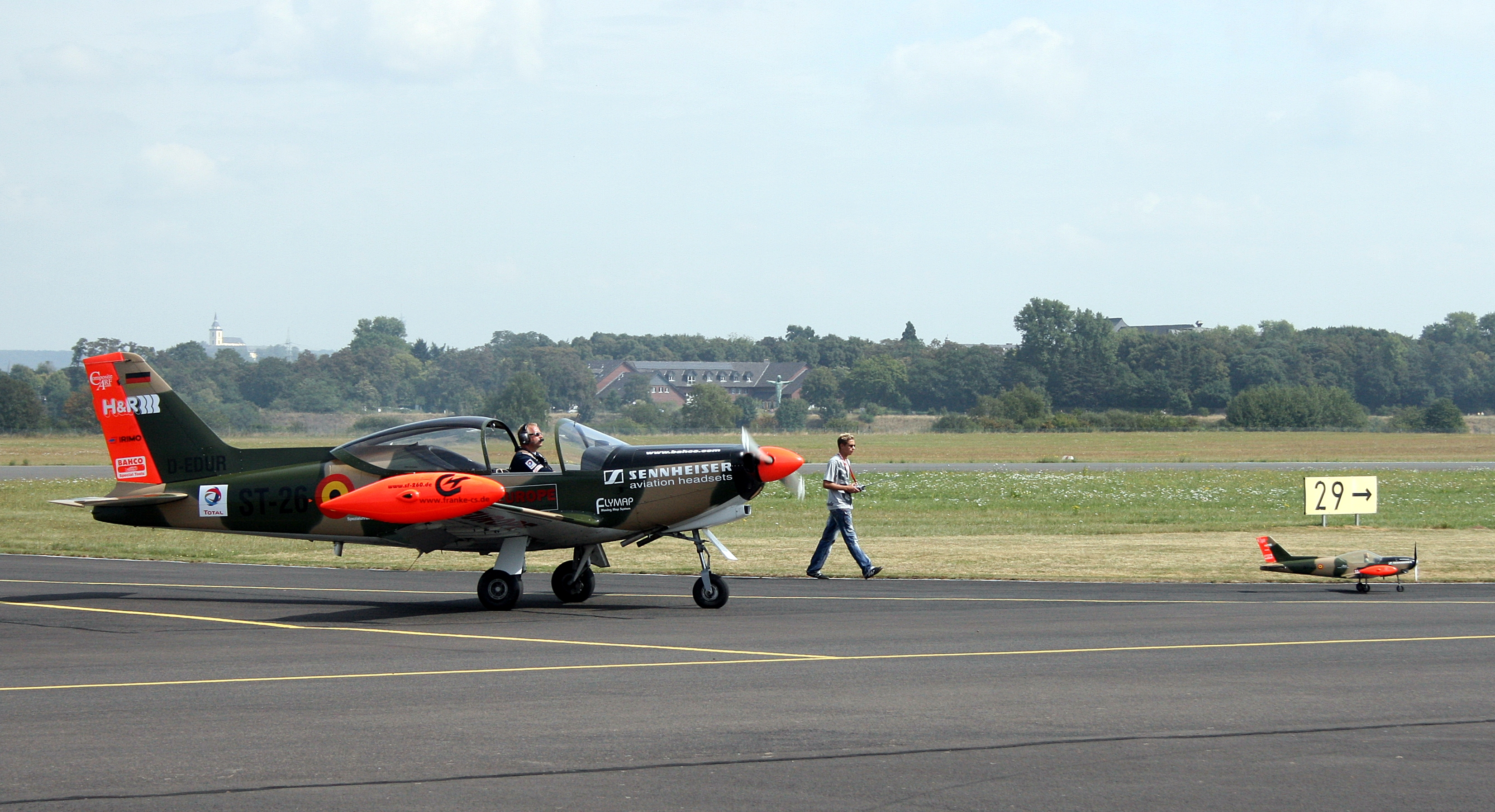 Airplane SIAI Marchetti SF 260 (Italy) on the German airfield Bonn/Hangelar. All-metal low-wing, built in 1967. Pilot: "Mr. Marchetti" Ralf Niebergall, Neuwied/D with his son Nico (he flies a model airplane same type)